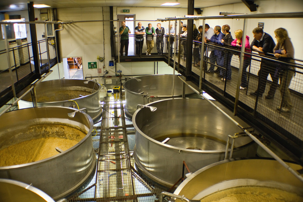 A group of visitors observes fermentation vats whilst on an official tour of the Black Sheep Brewery facilities in Masham, Yorkshire. The original high resolution copy of this photograph can be found online in this set of images.